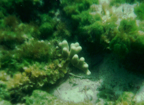 Small colony of Porites porites, French Bay, San Salvador Island, Bahamas. Taken 21 June 1999.